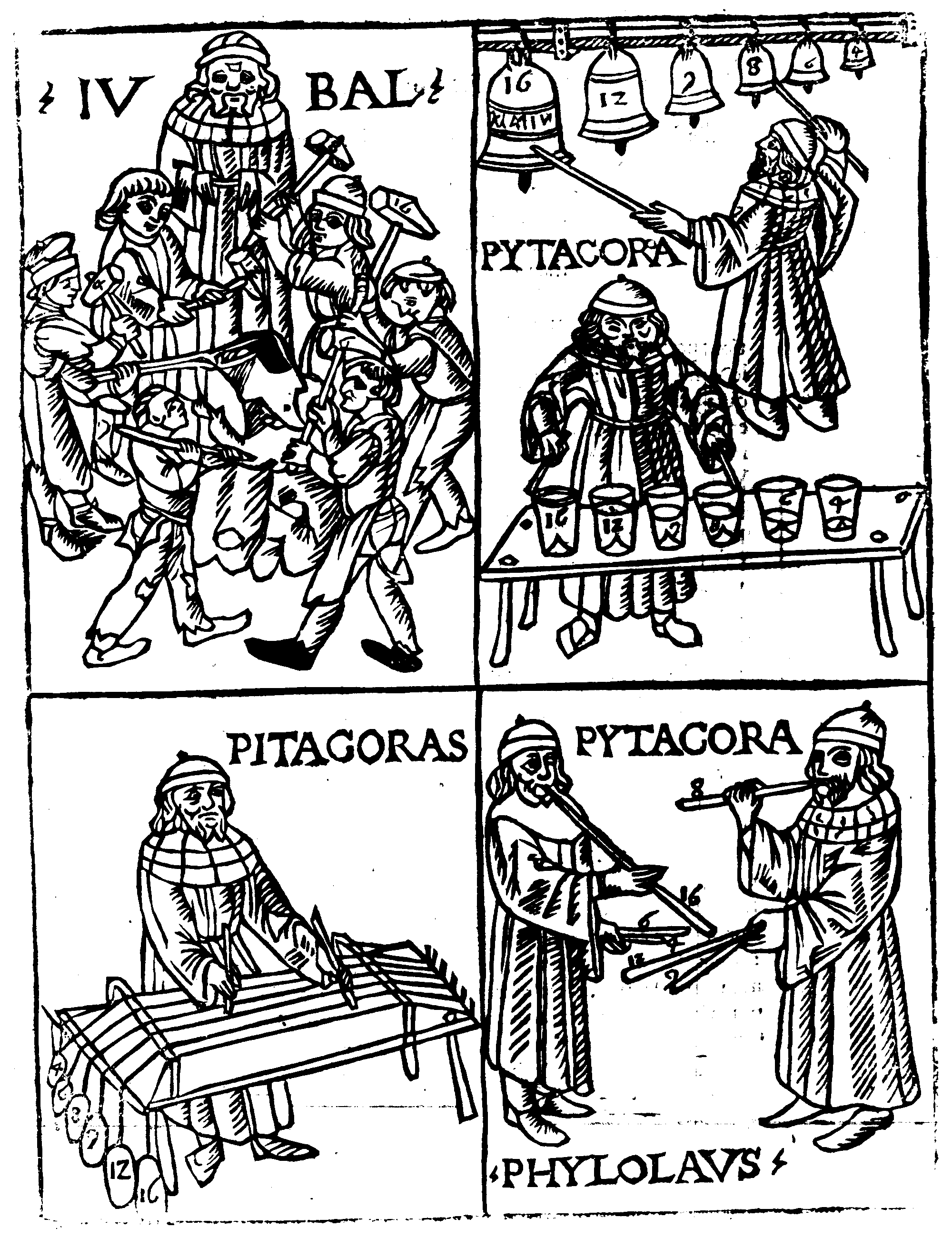 Woodcut showing Pythagoras with bells, a kind of glass harmonica, a monochord and (organ?) pipes in Pythagorean tuning. From Theorica musicae by Franchino Gaffurio, 1492 (1480?)